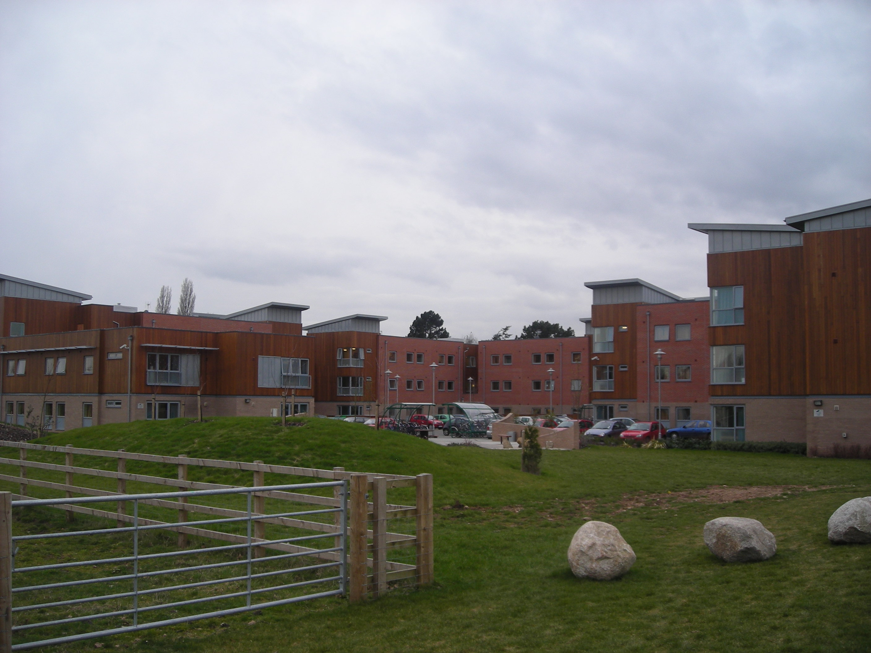 New halls of residence on Sutton Bonnington Campus, University of Nottingham